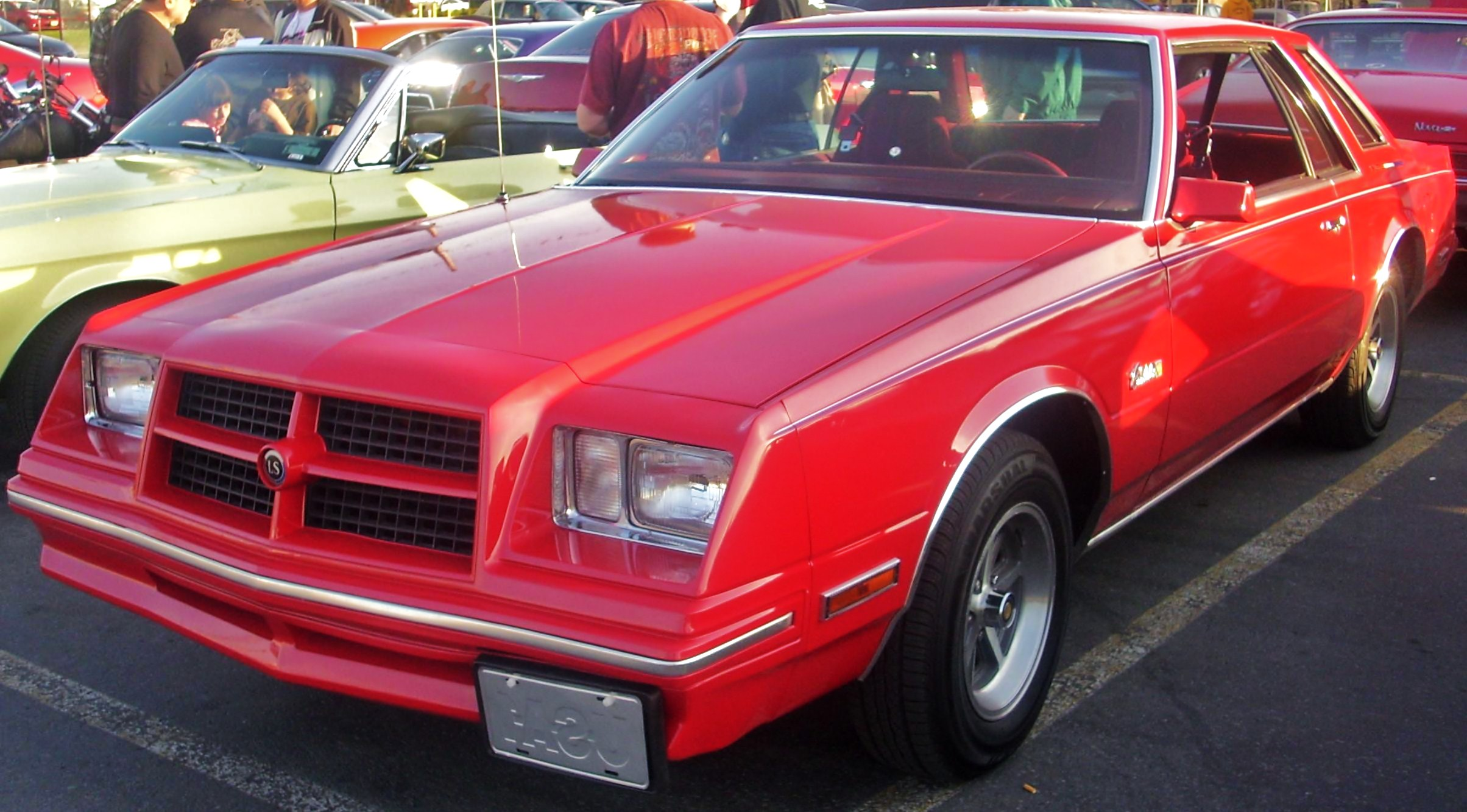 1980-1981 Chrysler Cordoba photographed in Montreal, Quebec, Canada at Gibeau Orange Julep.